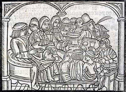 The company of pilgrims, in Chaucer's Canterbury Tales